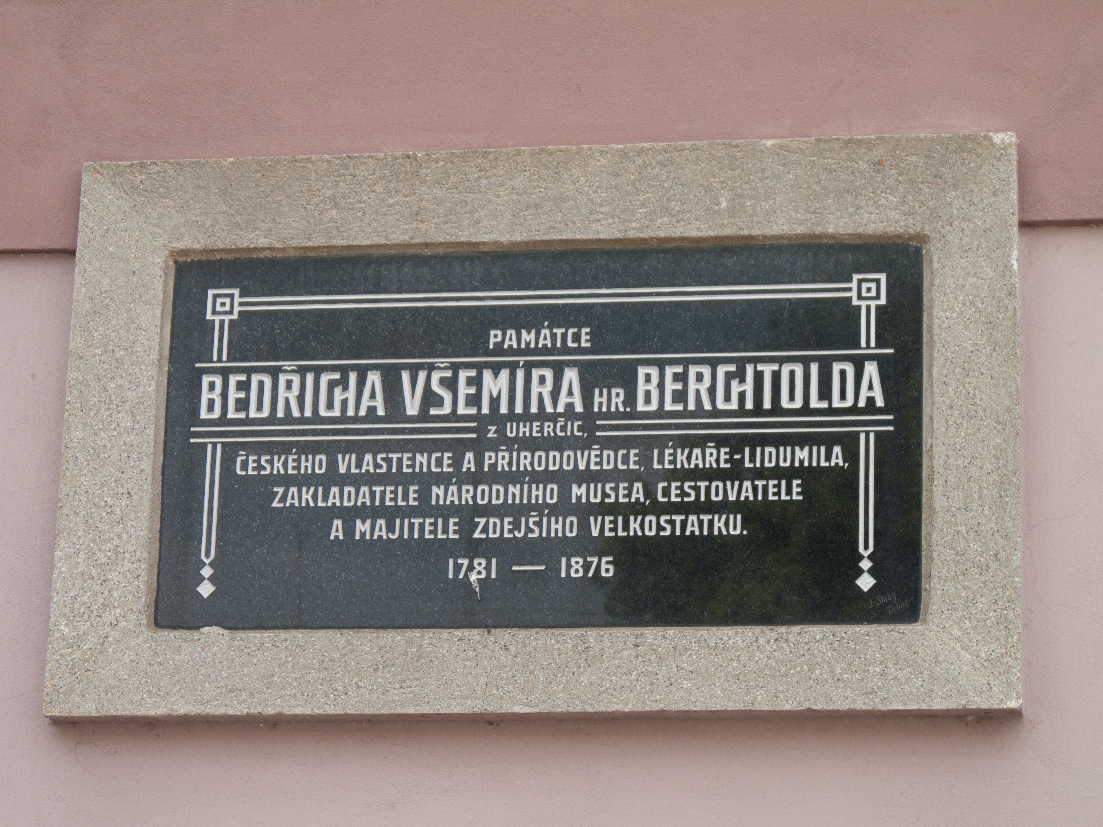 Plague put on the municipal office building in the village of Tučapy, Tábor District, Czech Republic to remember Friedrich von Berghtold.